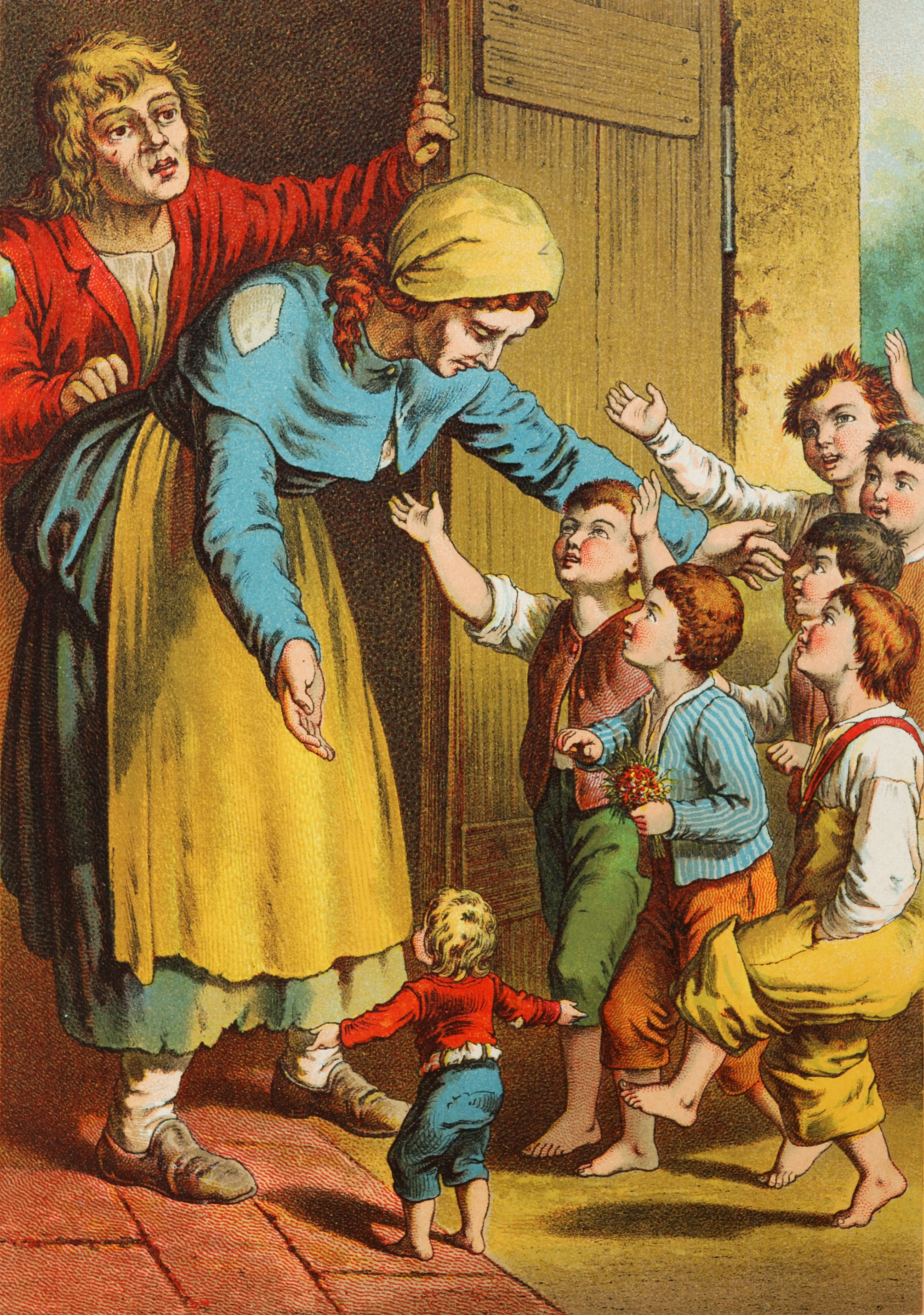 Hop o' My Thumb, illustration by Heinrich Leutemann or Carl Offterdinger